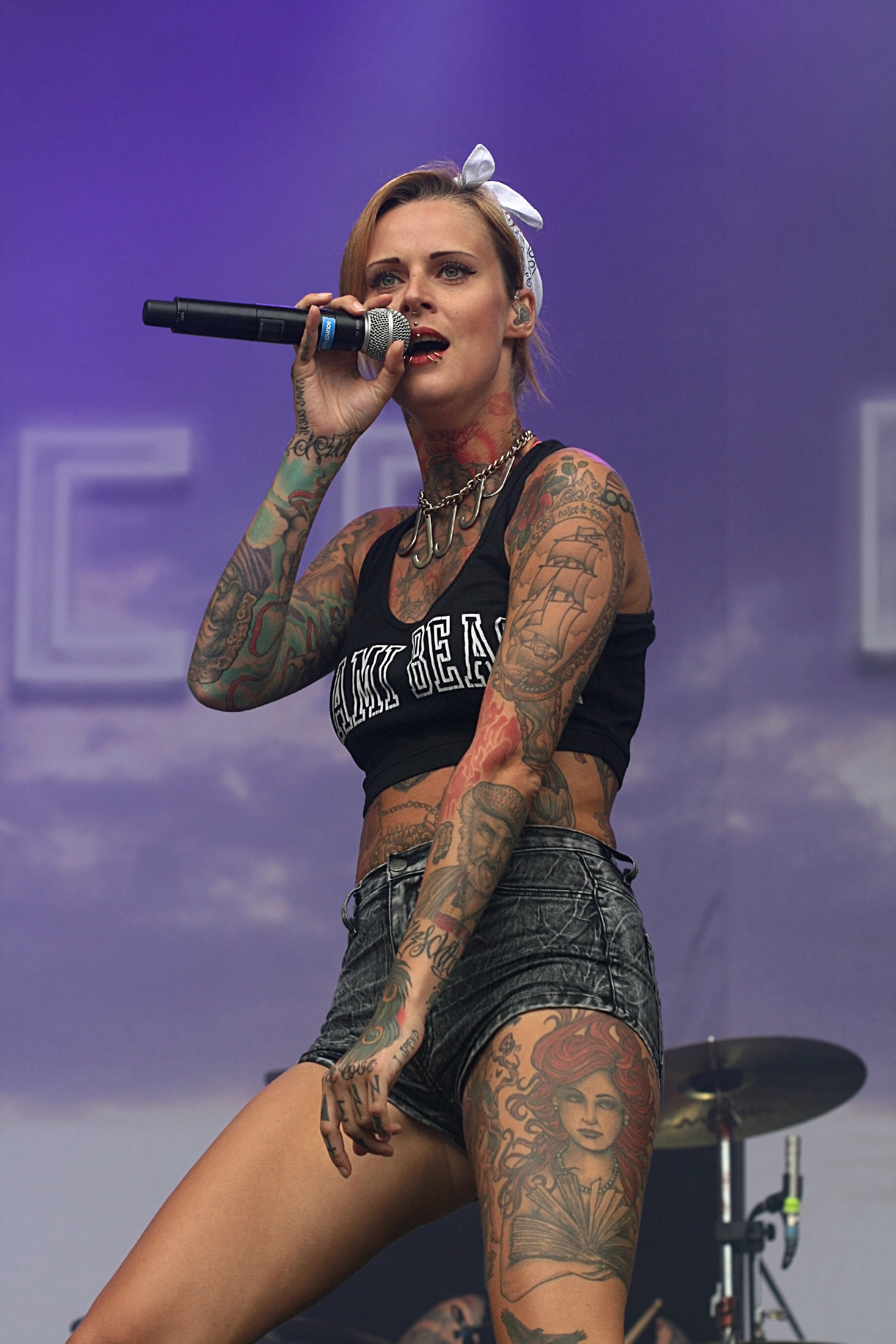 Jennifer, singer of Jennifer Rostock, on the Main Stage of the Taubertal Festival 2013. Festivalsommer This photo was created with the support of donations to Wikimedia Deutschland in the context of the CPB project "Festival Summer".